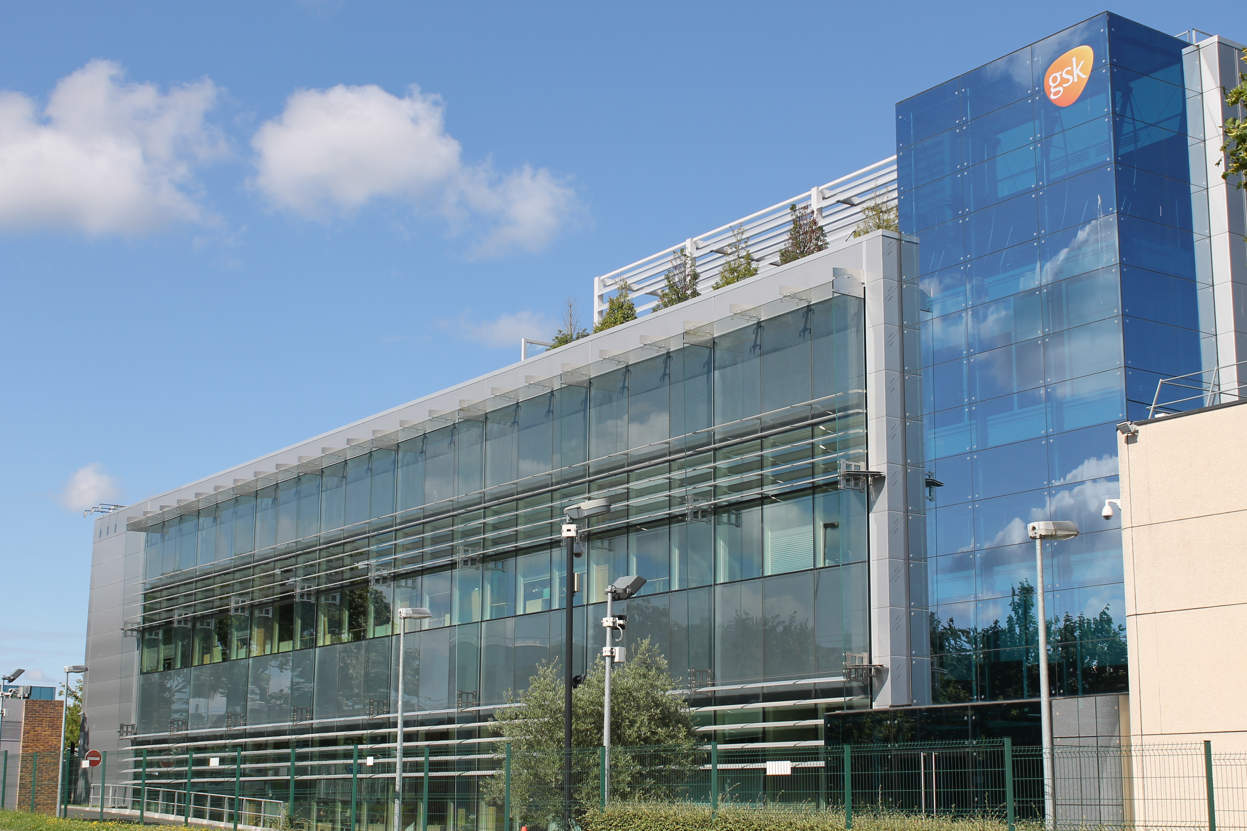 The research center of GlaxoSmithKline in Paris-Saclay.